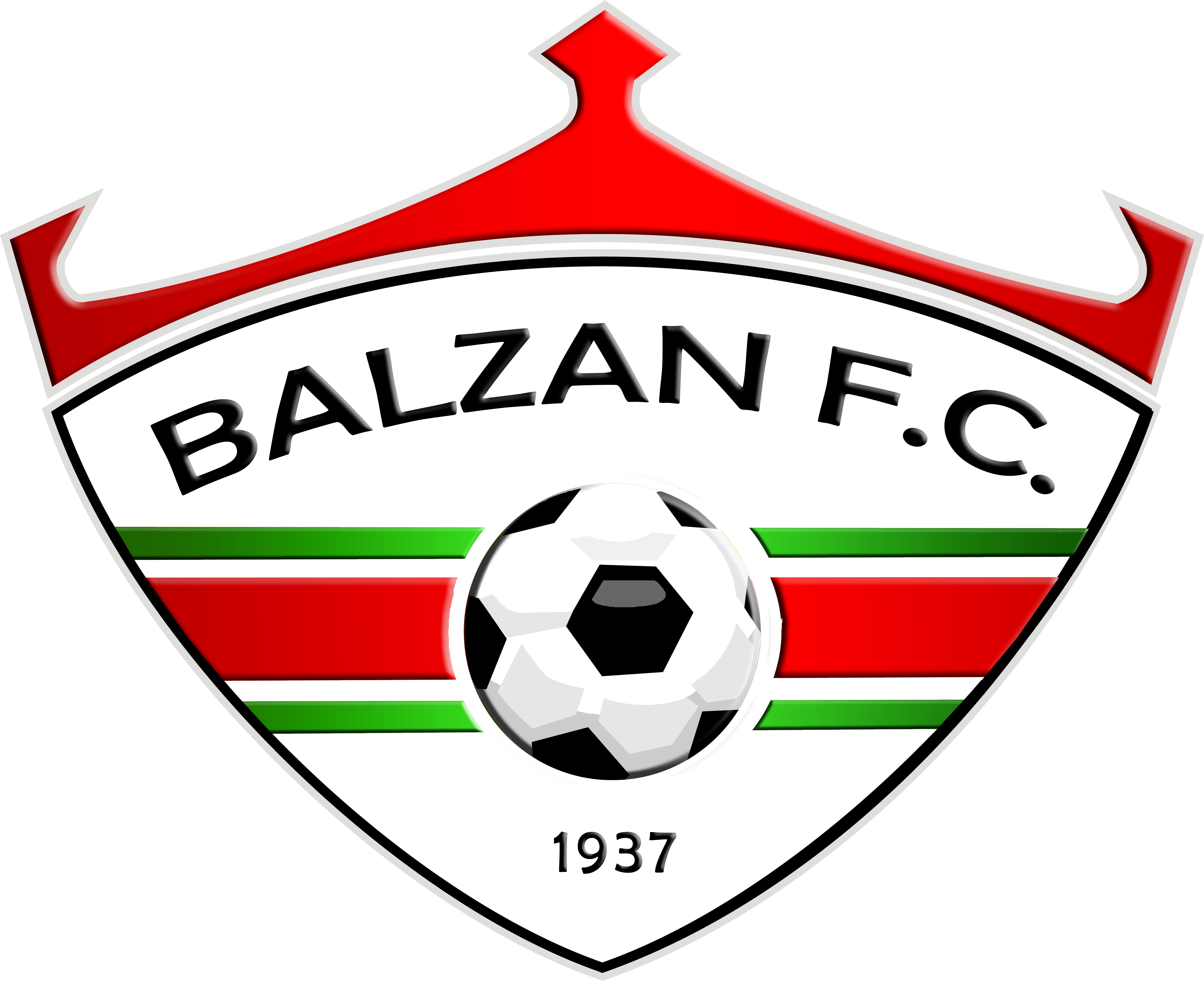 Balzan FC logo